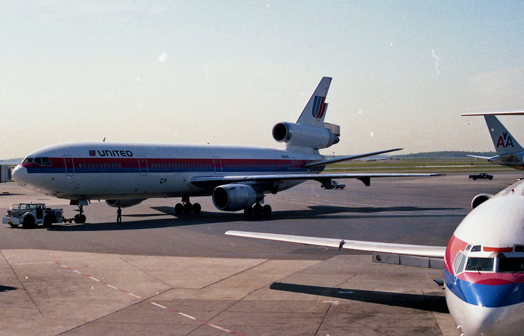 Waiting to board the 737 to O'Hare